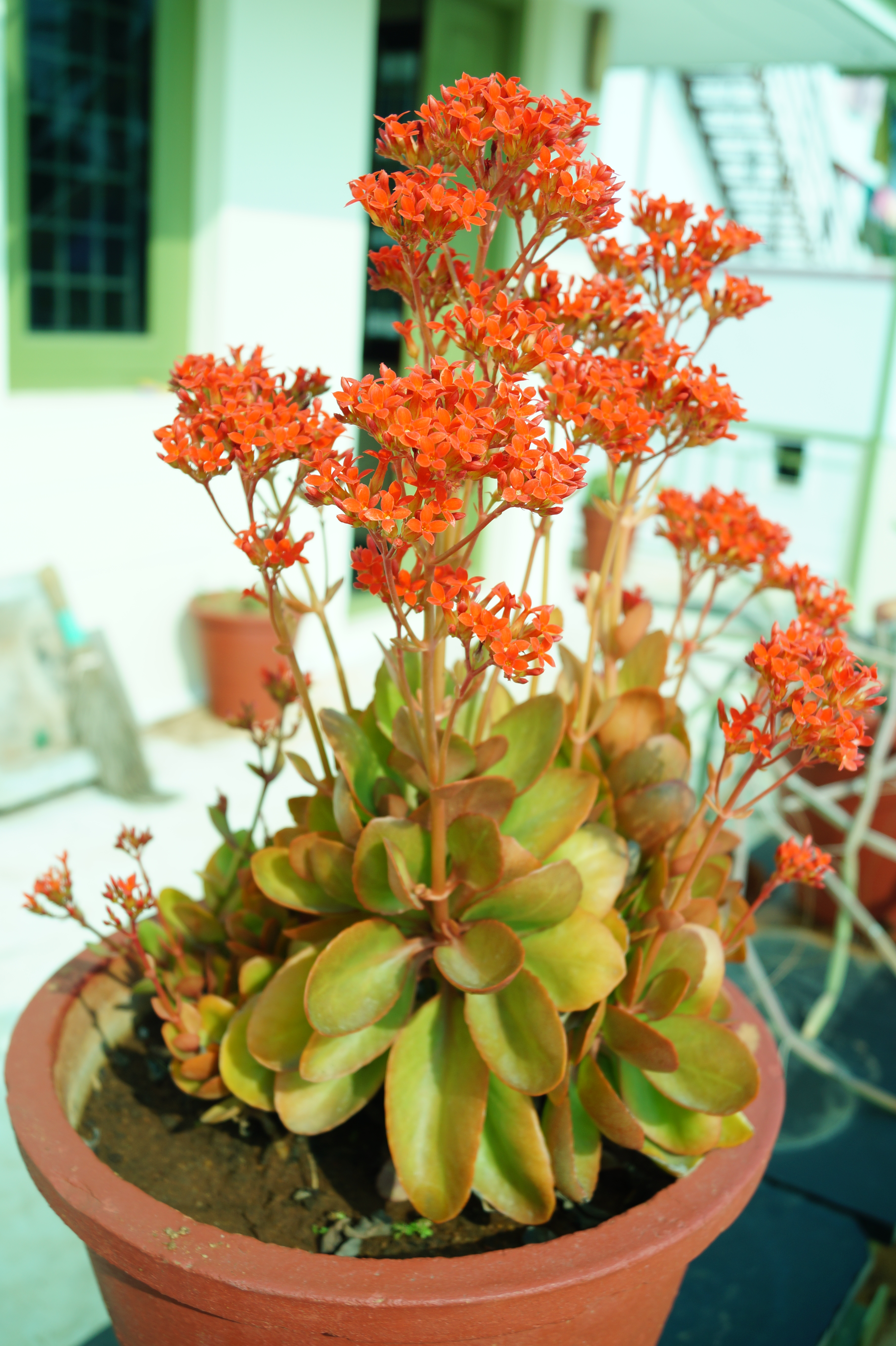 flowers of christmas kalanchoe at full bloom